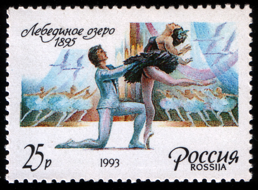 Stamp of Russia, Swan Lake, 1993, 25 r.